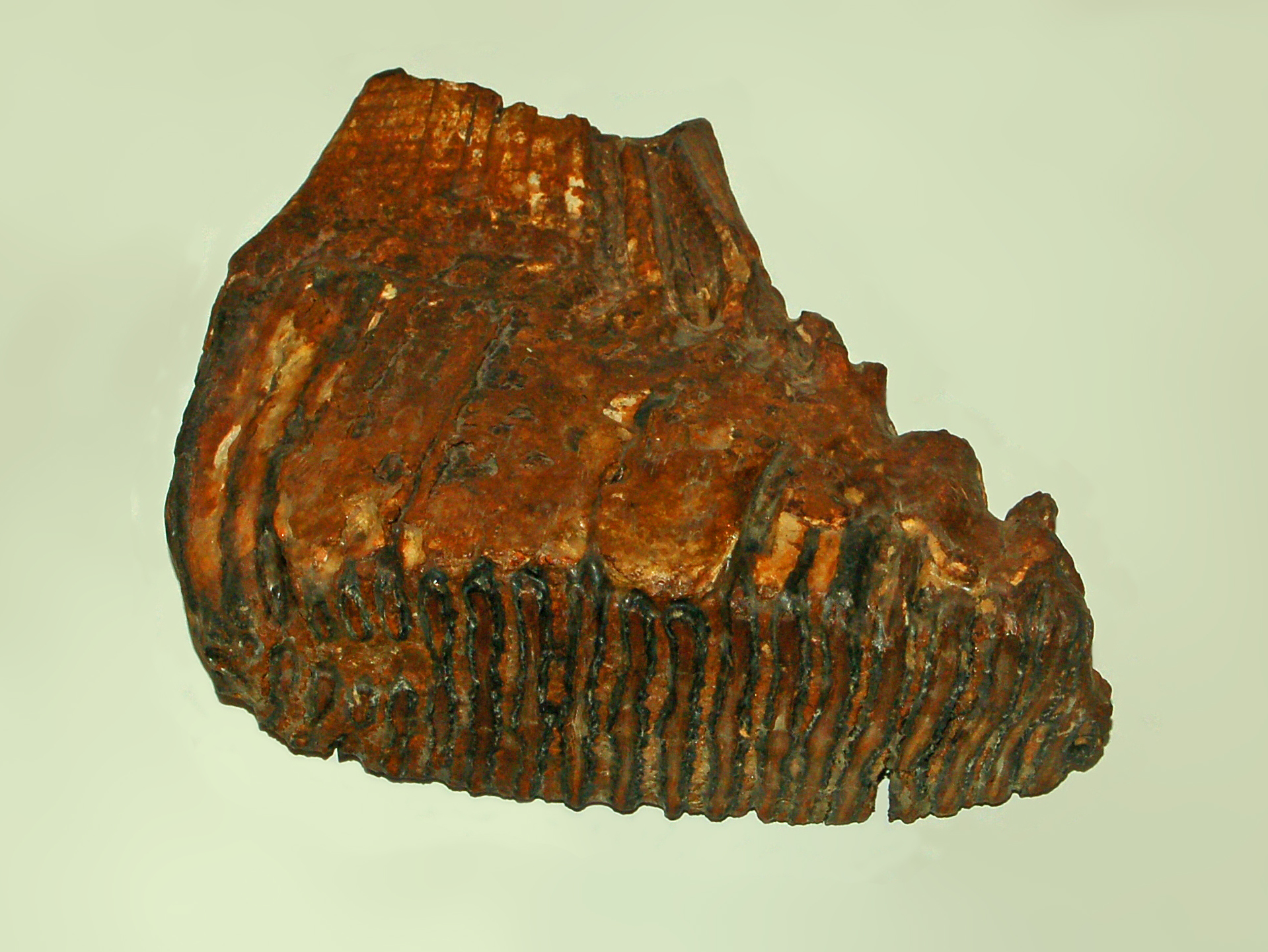 Molar of Mammuthus primigenius from Belgium